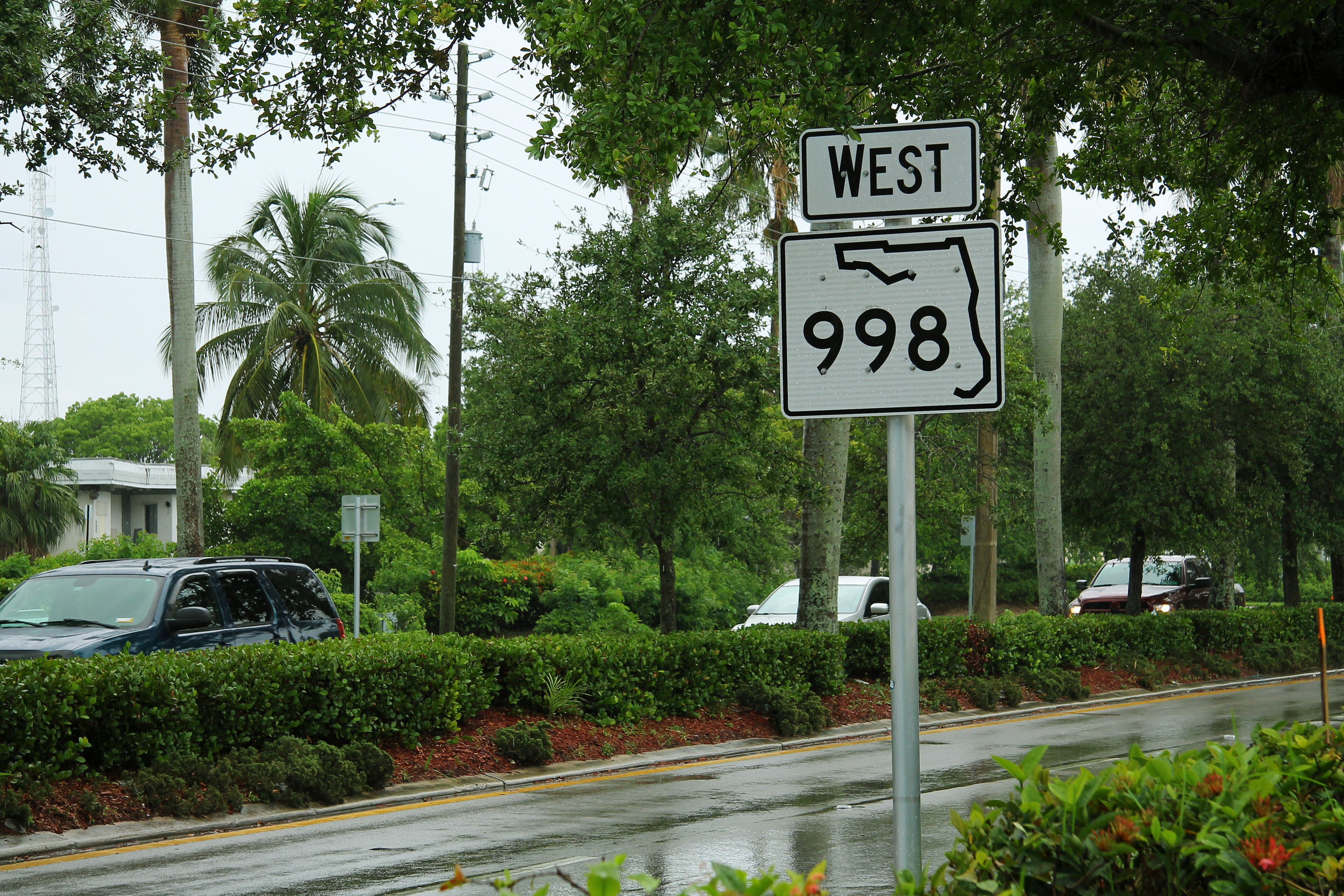 A sign denoting Florida State Road 998, located on Campbell Drive near US Route 1 in Homestead.